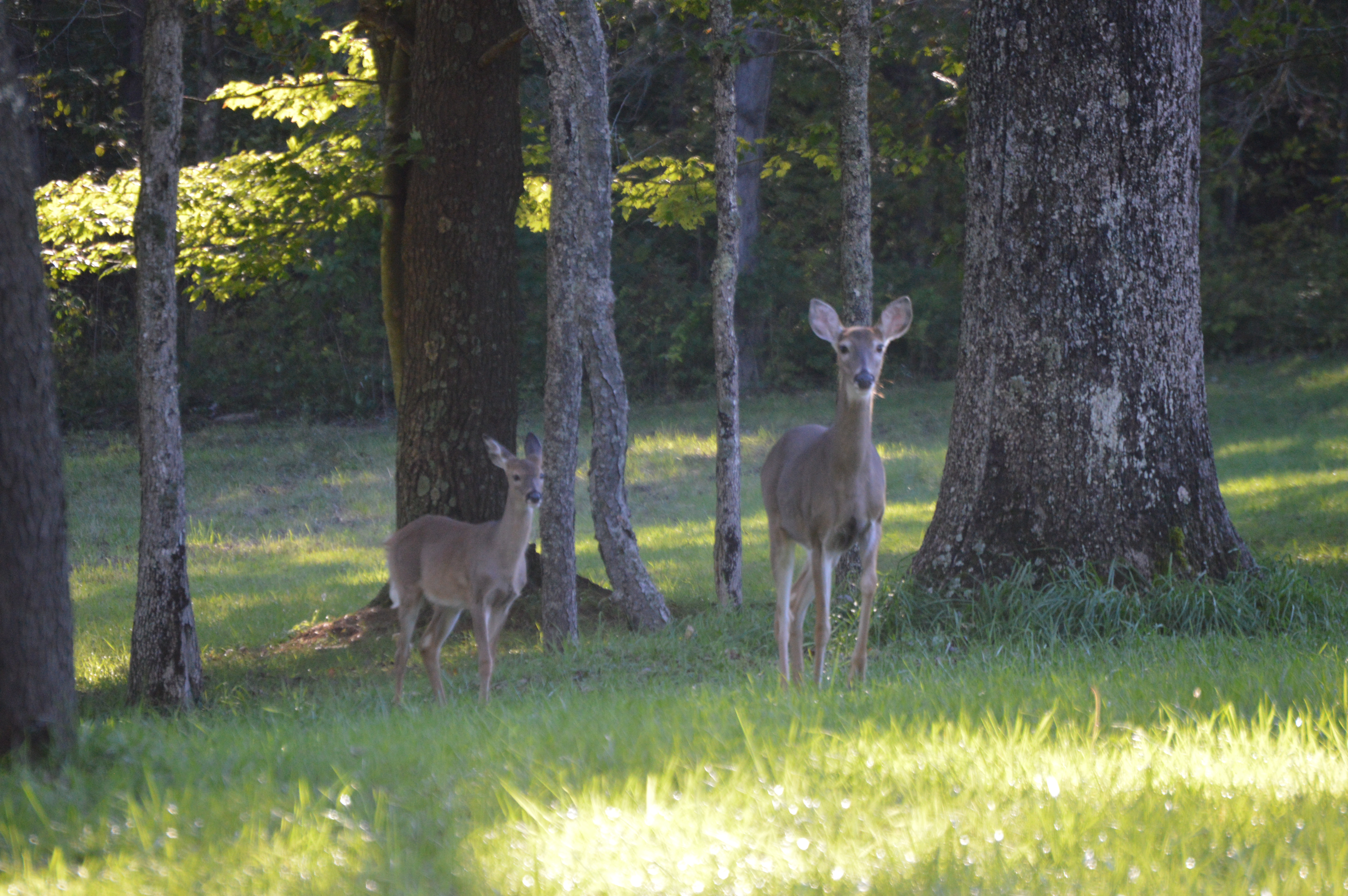 Two white-tailed deer (plus a third not visible here) in a small copse of trees along Old Deal Road just west of Flaugherty Creek in Greenville Township, Somerset County, Pennsylvania, United States.